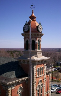 The Geauga County courthouse on the square of Chardon, as viewed from the Ferris Wheel during the annual Maple Festival.